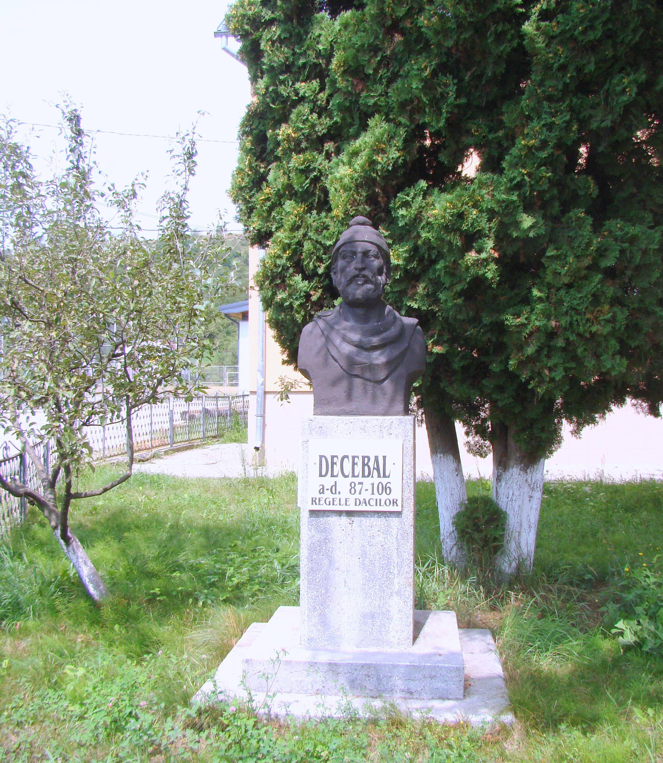 Rebrișoara, Bistrița-Năsăud county, Romania